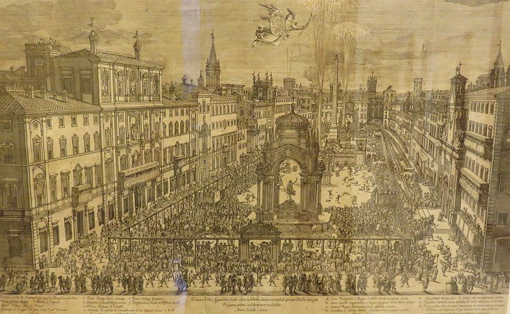 Piazza Navona on Easter Sunday 1650 with ephemeral arches designed by Carlo Rainaldi. The new façade of S. Agnese in Agone was yet to be built.